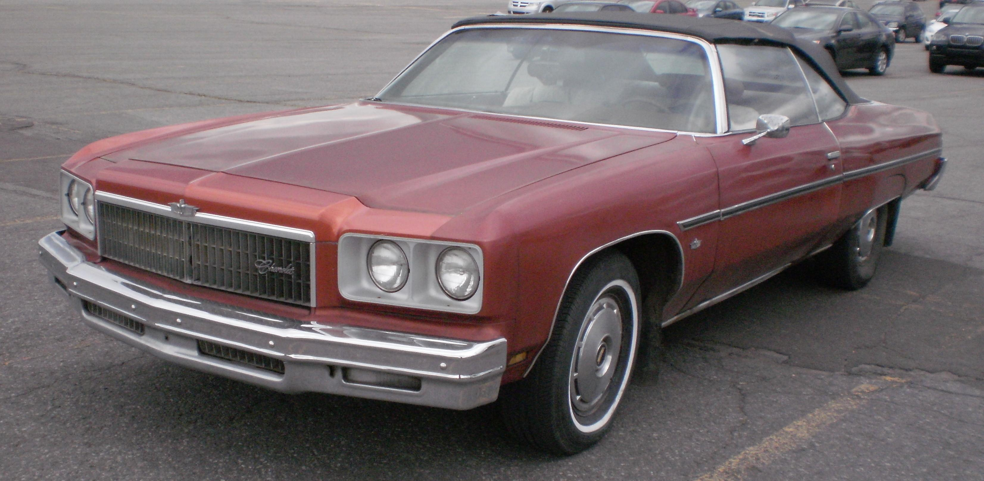 1975 Chevrolet Caprice Classic photographed in Montreal, Quebec, Canada.